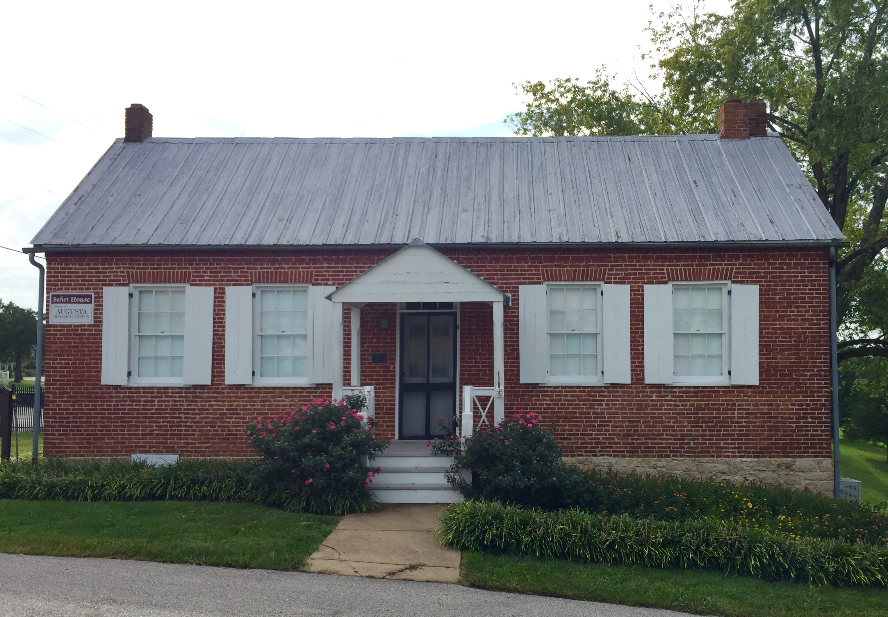 Built in 1860, this was once the home of August Sehrt, a German immigrant. It now functions as the history museum of Augusta, MO